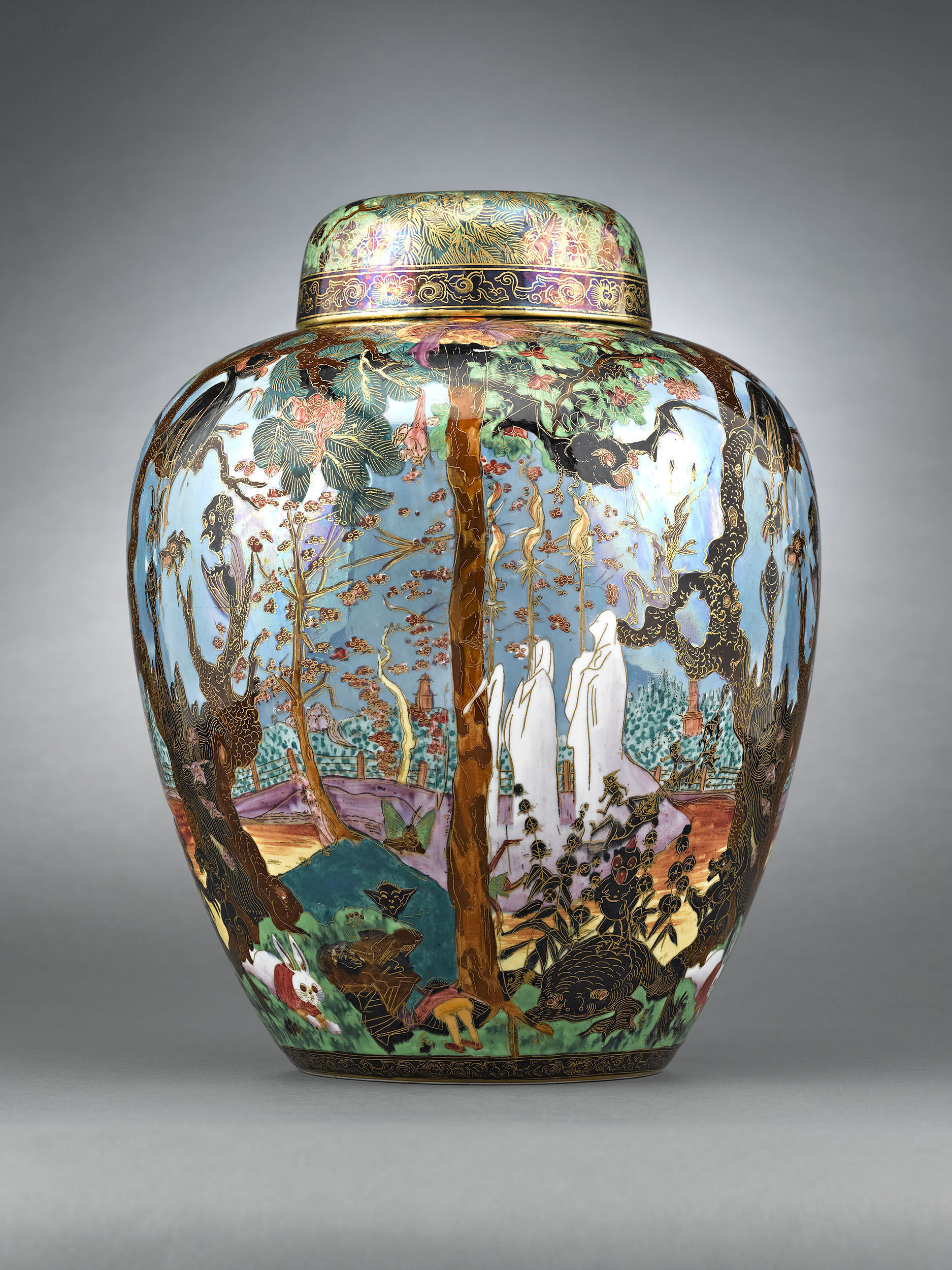 Wedgwood Fairyland Lustre Ghostly Wood Covered Malfrey Pot. Designed by Daisy Maekig-Jones. Circa 1920